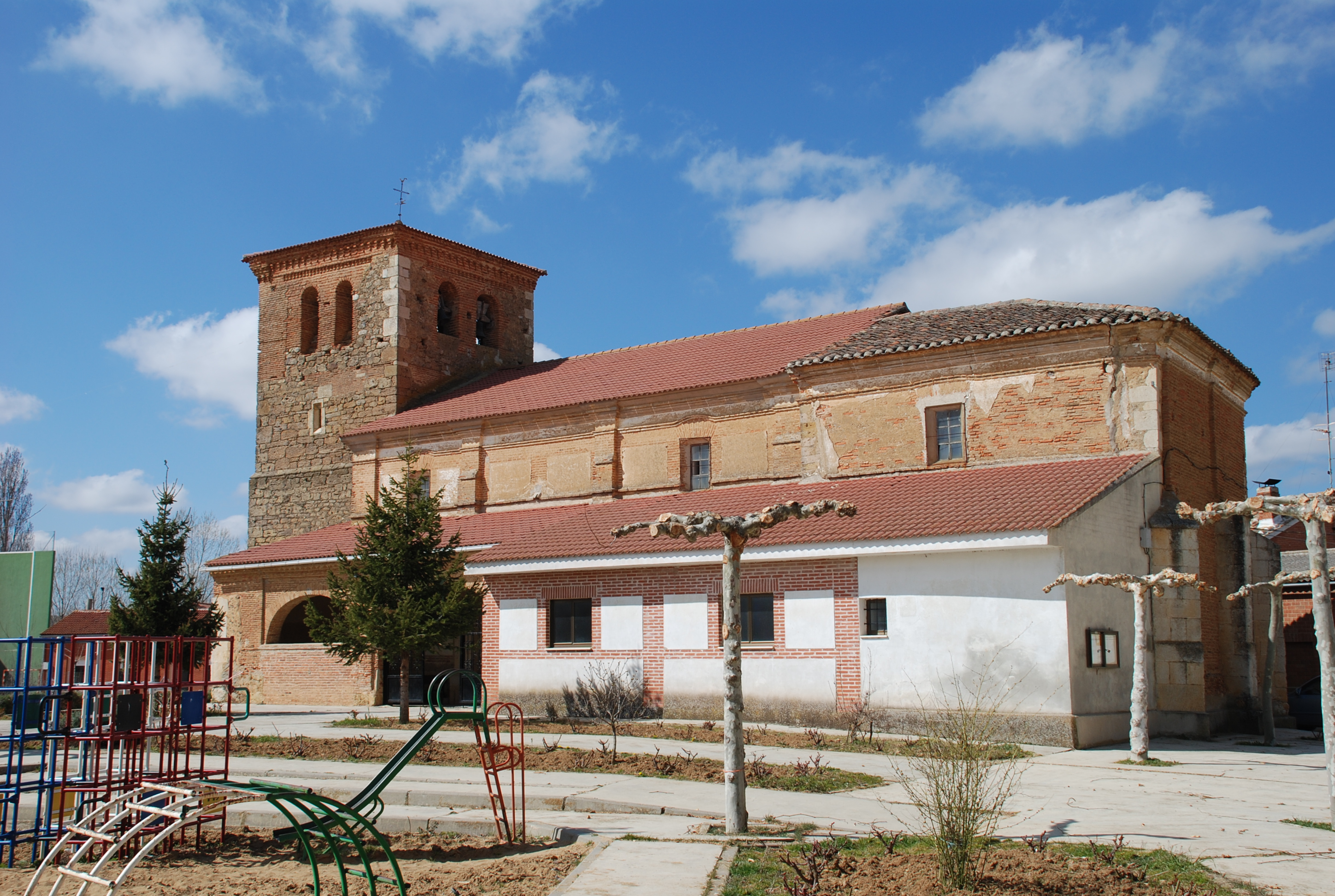 Church of San Pelayo in Villasila de Valdavia (Palencia, Castile and León).